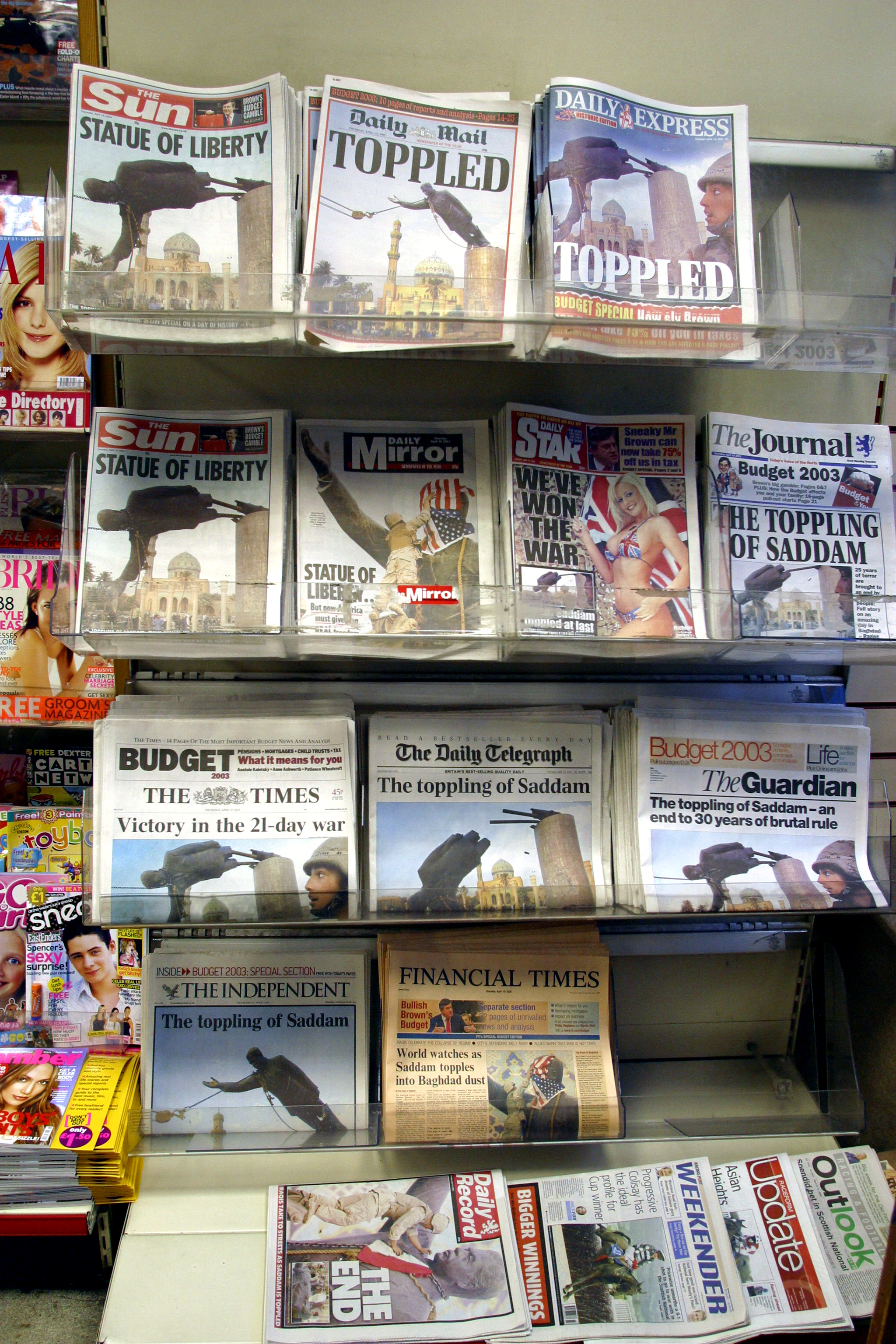 Newspapers on 10th April 2003 showing Saddam Hussein's statute being toppled in Baghdad.